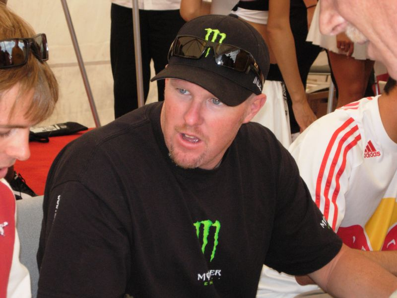 Paul Tracy in 2007.